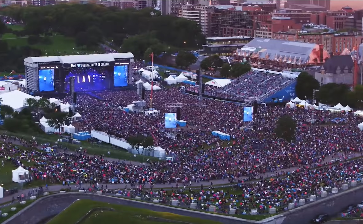 The FEQ biggest stage ( max 100,000 )